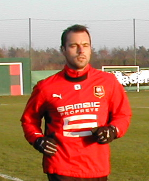 Mickaël Pagis training with Stade Rennais F.C. on December 29, 2008.